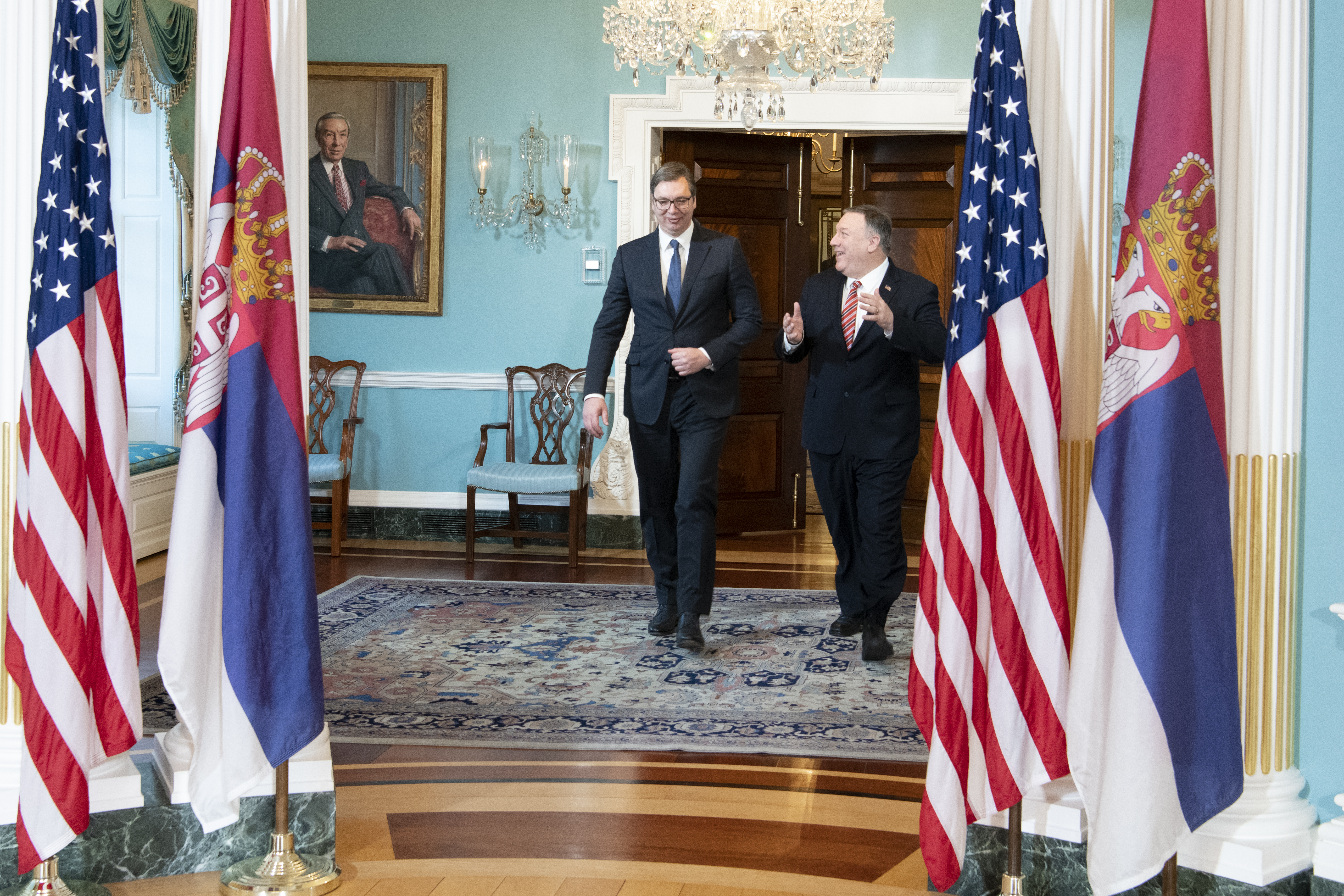 Secretary of State Michael R. Pompeo meets with Serbian President Aleksander Vucic, at the Department of State, on March 2, 2020. [State Department photo by Freddie Everett/ Public Domain]